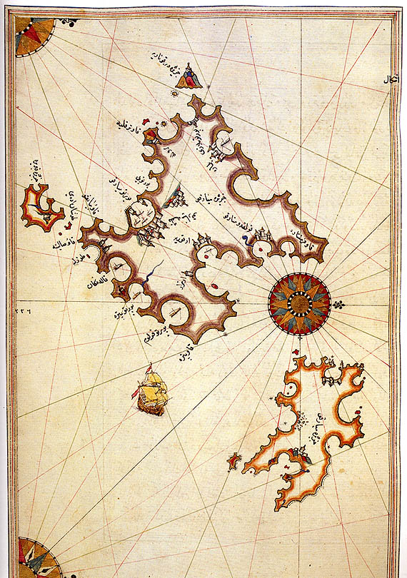 Majorca and Minorca in Spain on the Kitab-ı Bahriye (Book of Navigation) of Piri Reis